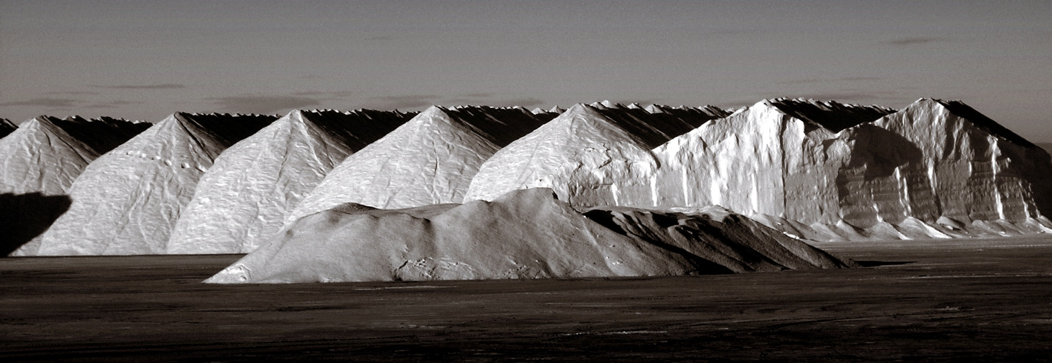 The salt montain in San Pedro of Pinatar in Murcia (Spain).